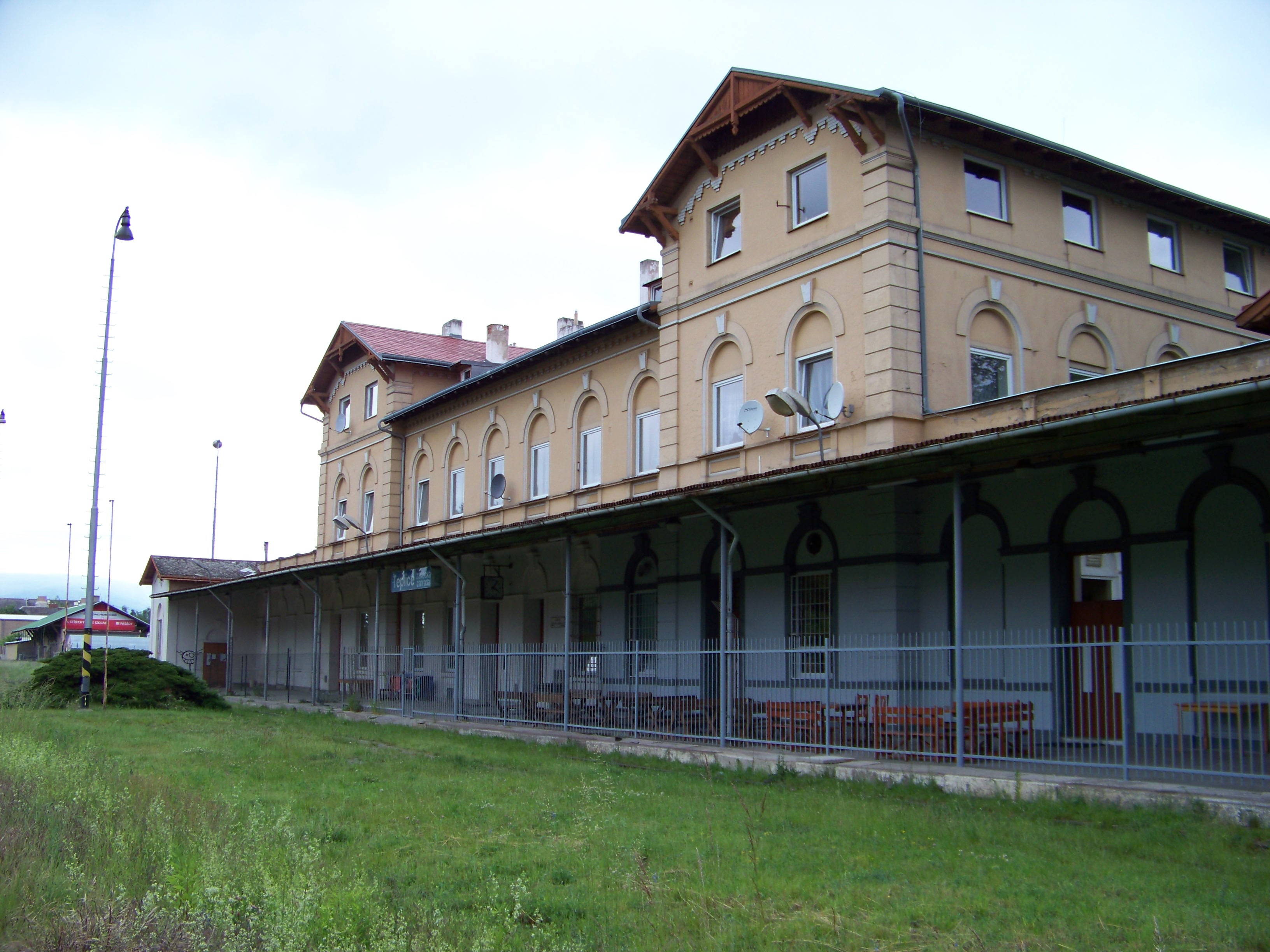 Teplice, Teplice District, Ústí nad Labem Region, Czech Republic. Train station Teplice zámecká zahrada.